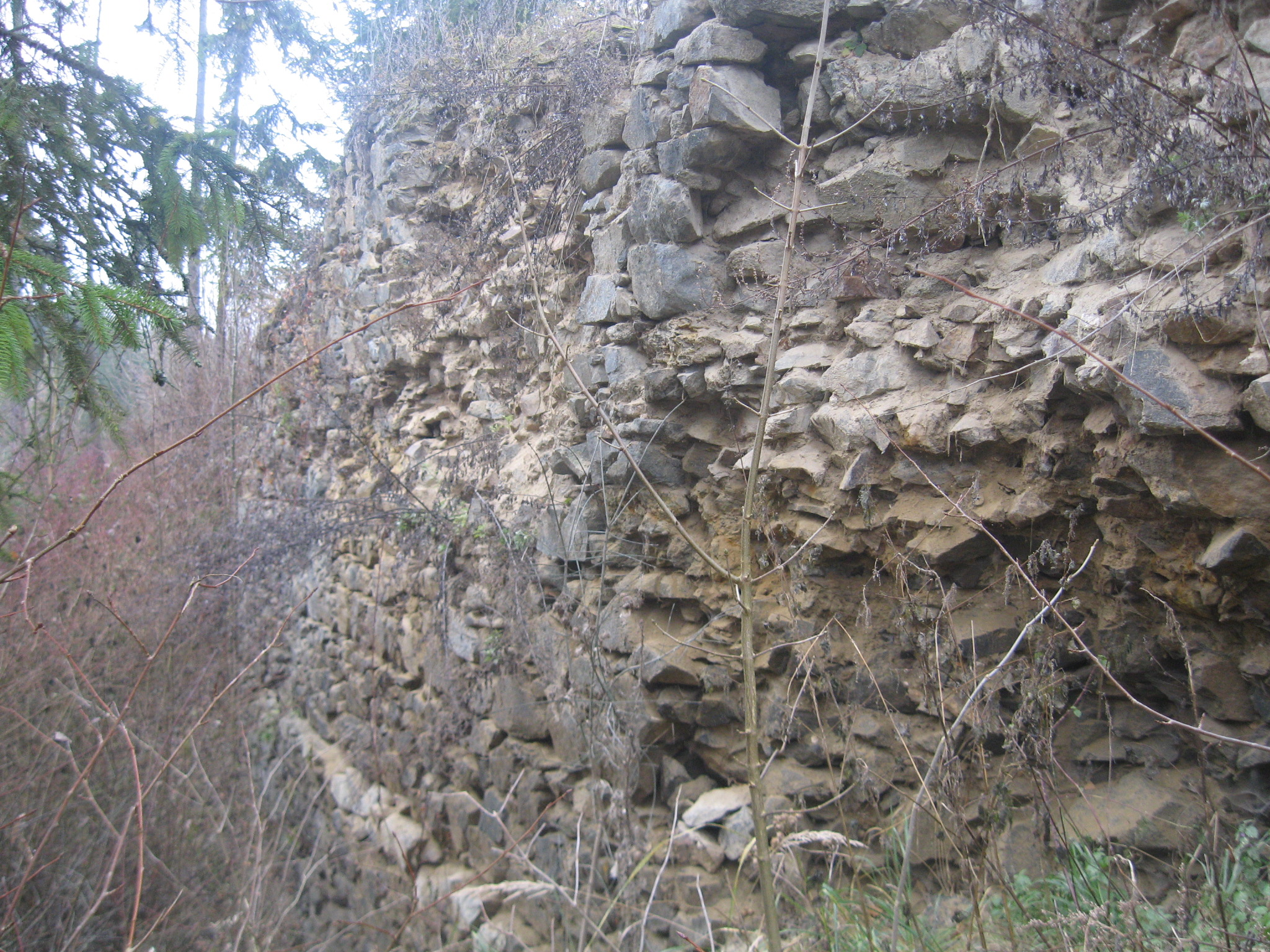 Wall at the Kožlí Castle - Czech Republic